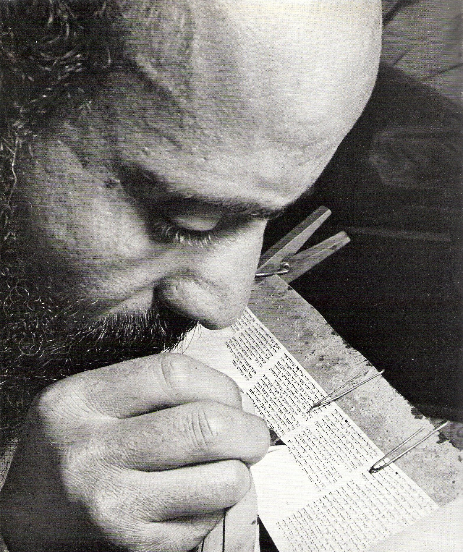 Sofer STaM, a Jewish scribe who can transcribe Torah scrolls and other religious writings